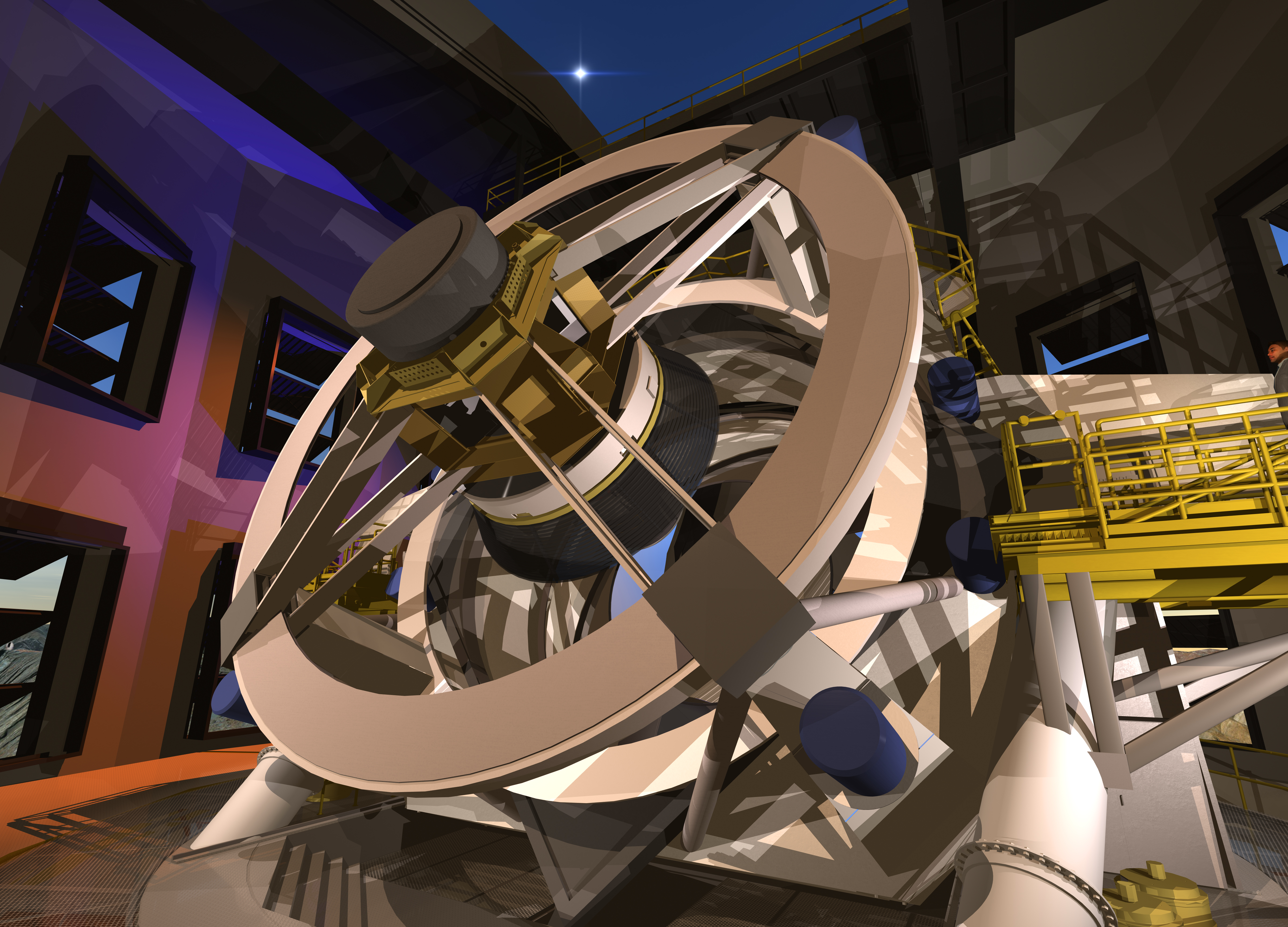 The inside of the dome and the night sky provide a backdrop for this artist's conception of a close-up view of the telescope. The LSST will carry out a deep, ten-year imaging survey in six broad optical bands over the main survey area of 18,000 square degrees.